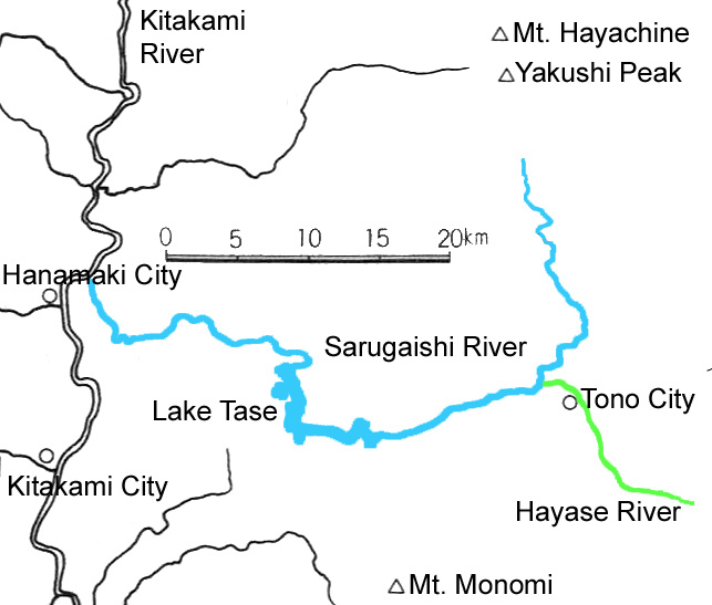 A map of the Sarugaishi River in Tono and Hanamaki, Iwate Prefecture Japan and its tributary, the Hayase River